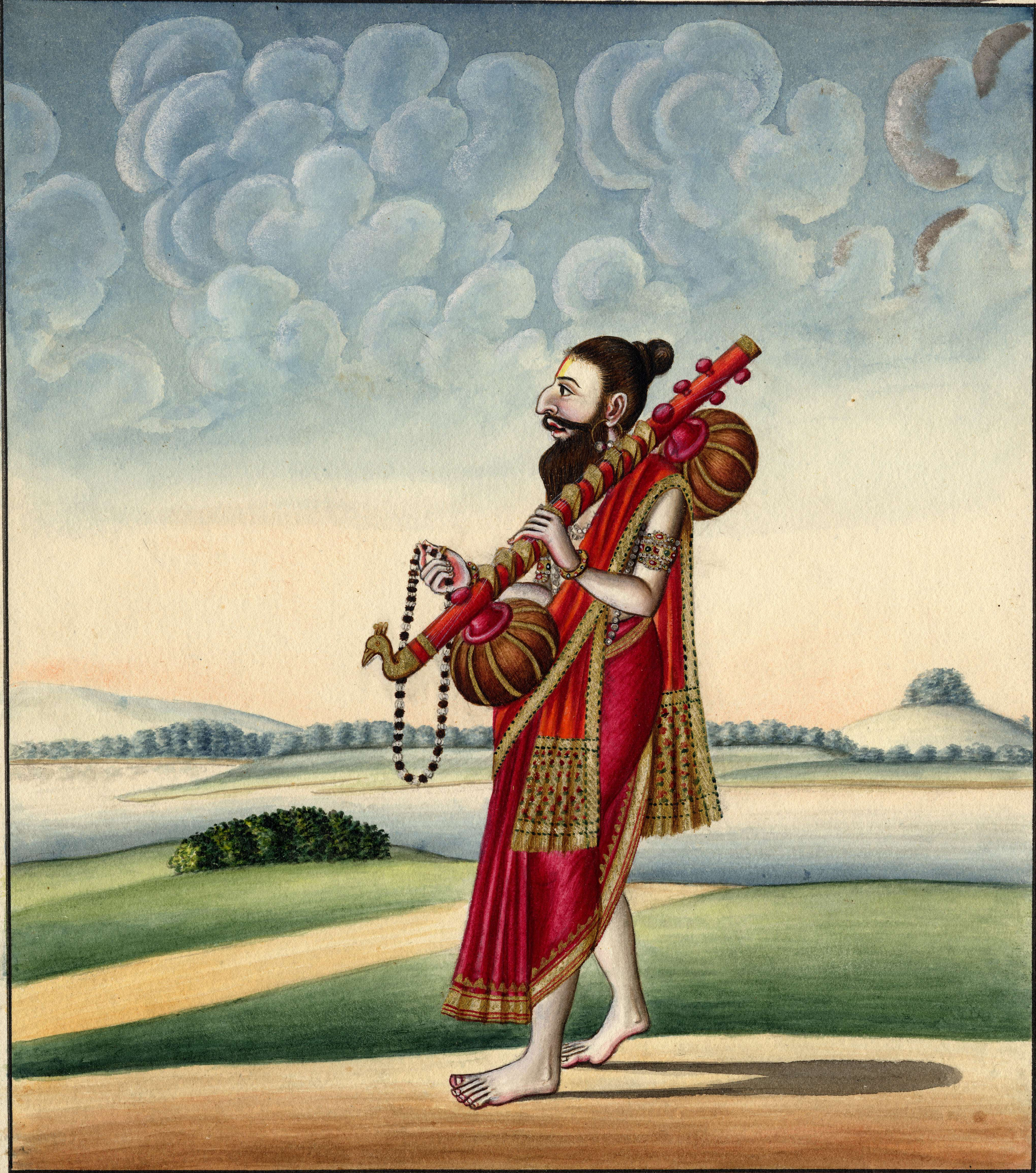 A male figure, possibly Narada, the inventor of the Vina. The man is shown walking in a hilly landscape with trees in the distance. He wears a red dhoti, edged in gold with a matching shawl draped over his shoulder. His hair is tied up in a top knot and he has a full beard. He holds a long rosary in his right hand and in his left hand he holds a vina which he rests against his shoulder. One end of the vina is decorated with a bird finial. His shadow is a grey loop attached to each foot. The painting is surrounded by a black border